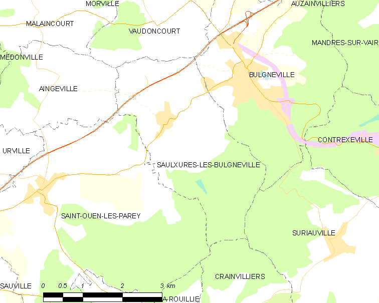 Map of French municipality Saulxures-lès-Bulgnéville